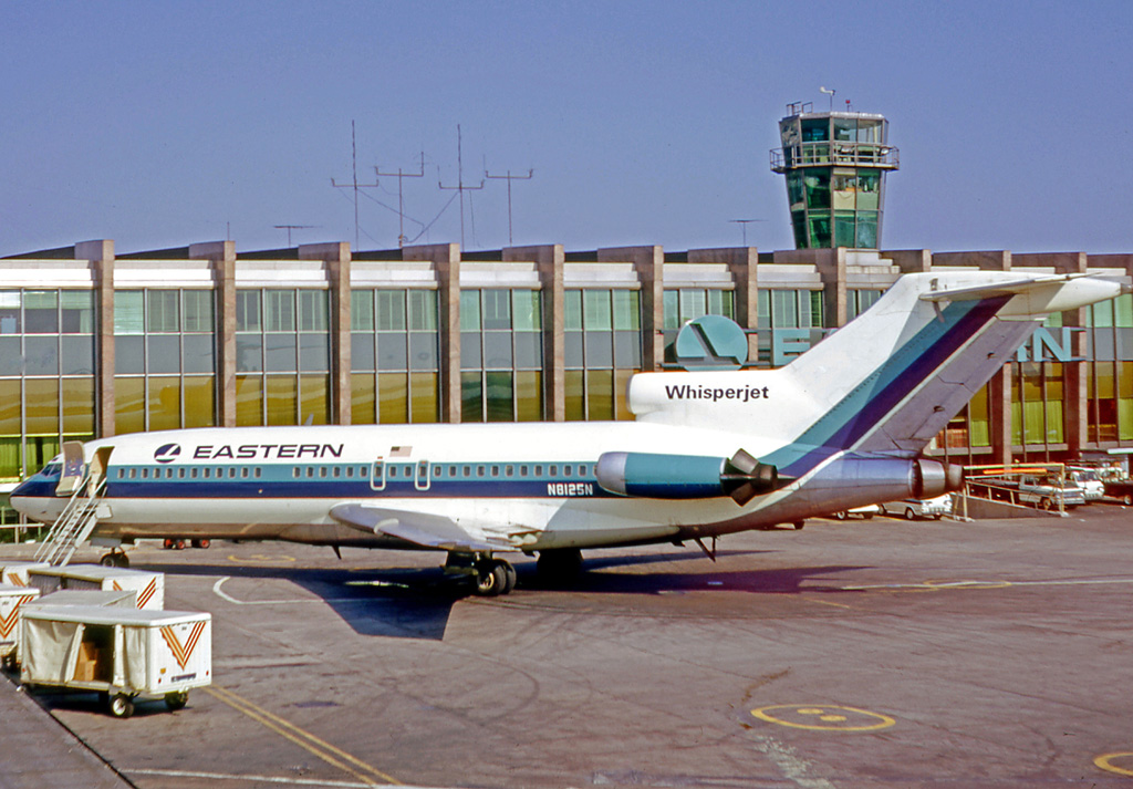 Boeing 727-25 N8125N of Eastern Airlines at New York JFK in 1970